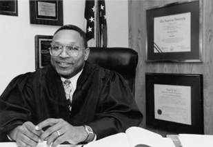 image from the official U.S. Court bio Judge Reggie B. Walton, Official U.S. Court bio